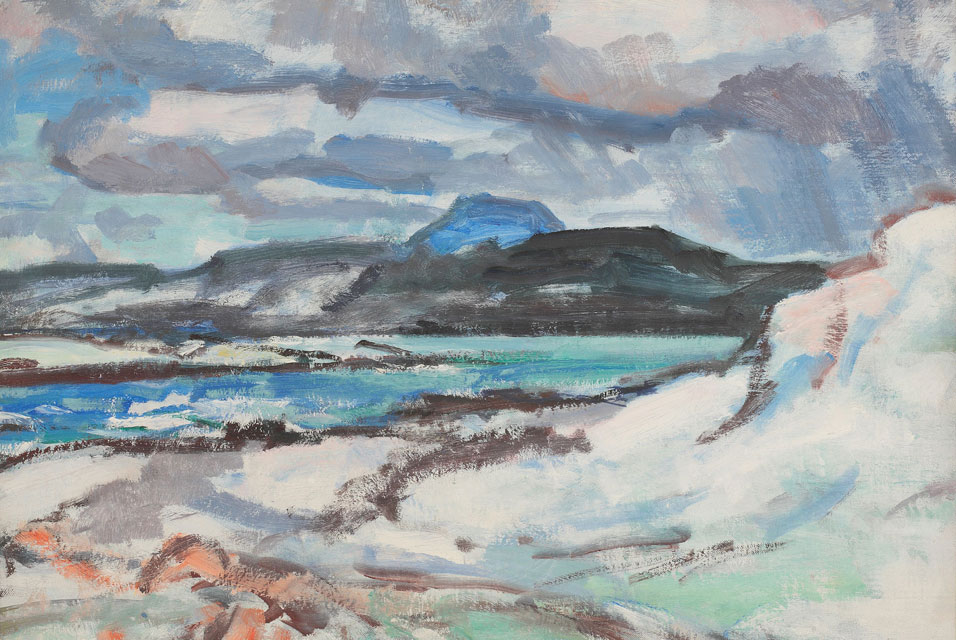 Iona, painting by Samuel Peploe, 1933